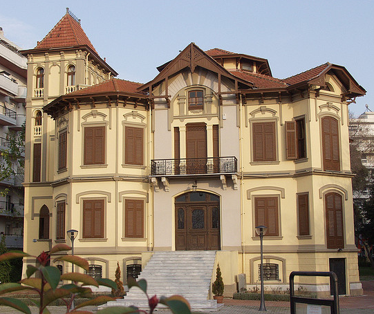 The National Bank of Greece Cultural Foundation in Thessaloniki, Greece.